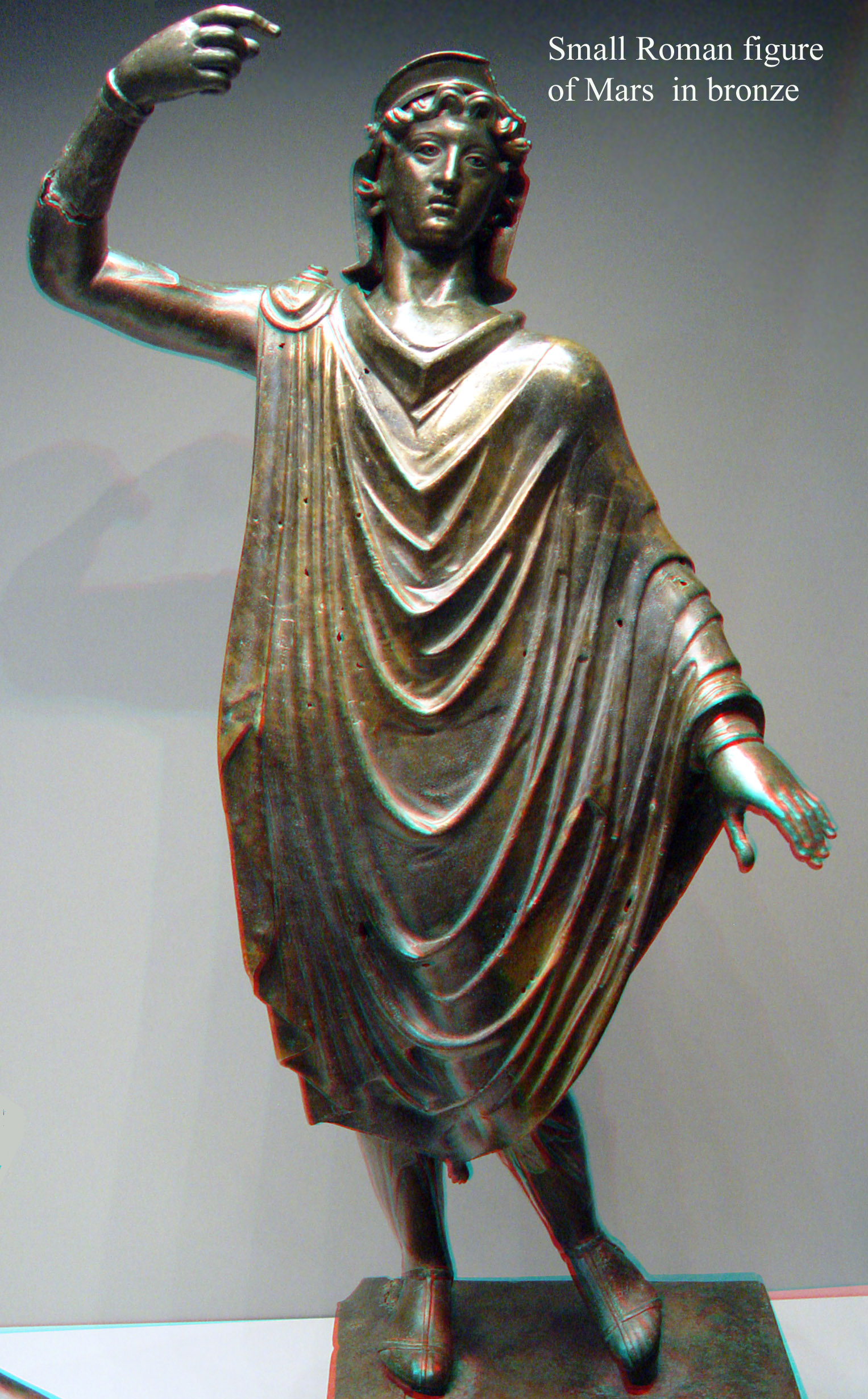 To see this image in 3D stereo use Red-Cyan glasses. Summary Self-made 3D full color image by Photo-journalist. All rights waived to Wikipedia by photographer.